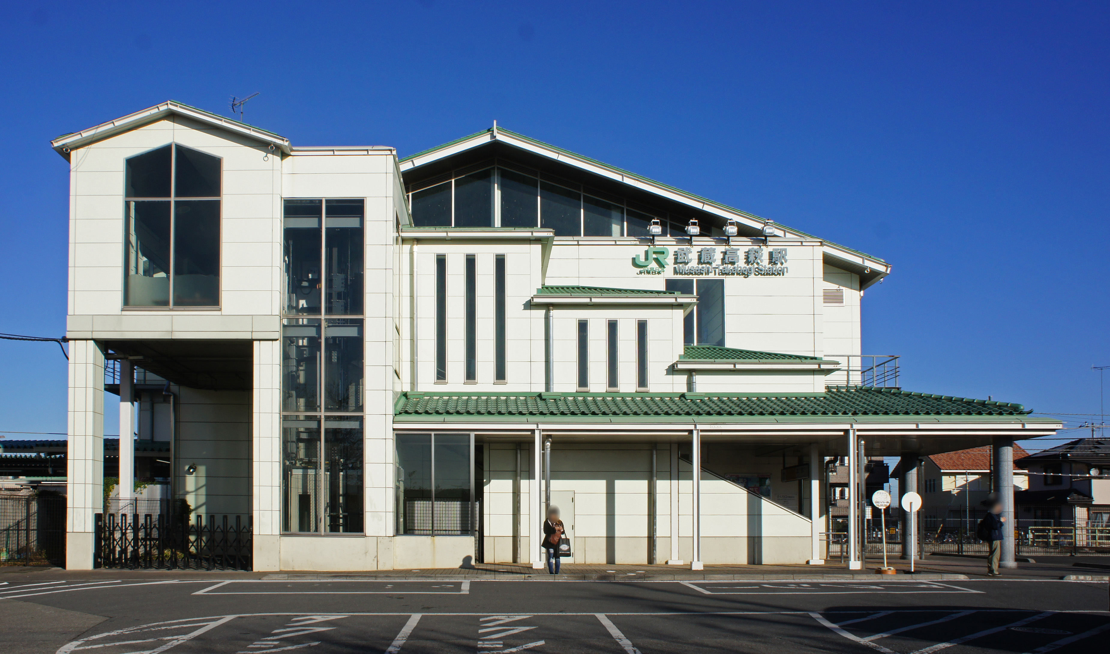 South Exit of JR Kawagoe-Line Musashi-Takahagi Station